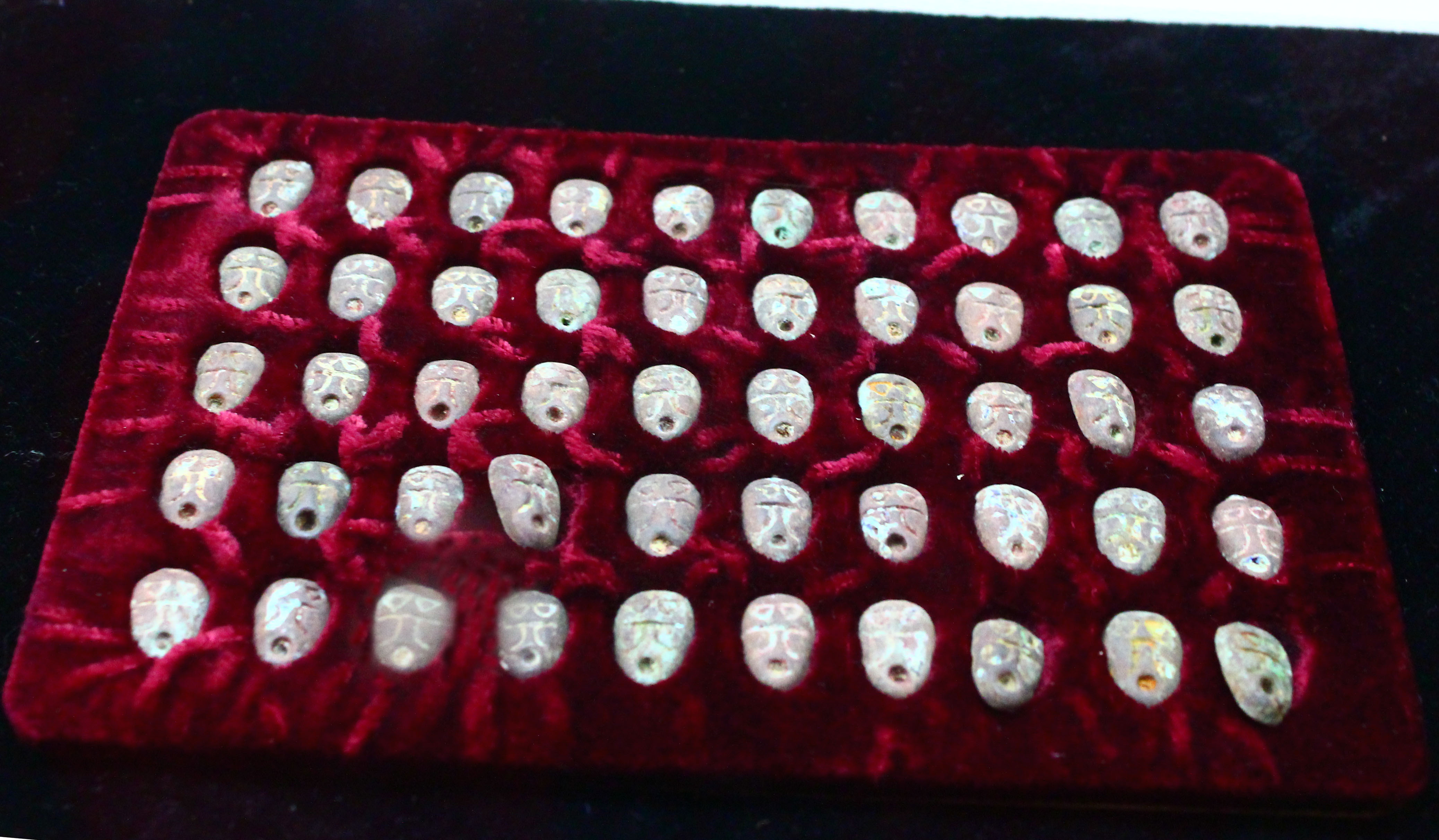 Yibi coin,Warring States period,from Yezhuhu Tomb,Xiaogan,Hubei province,China.